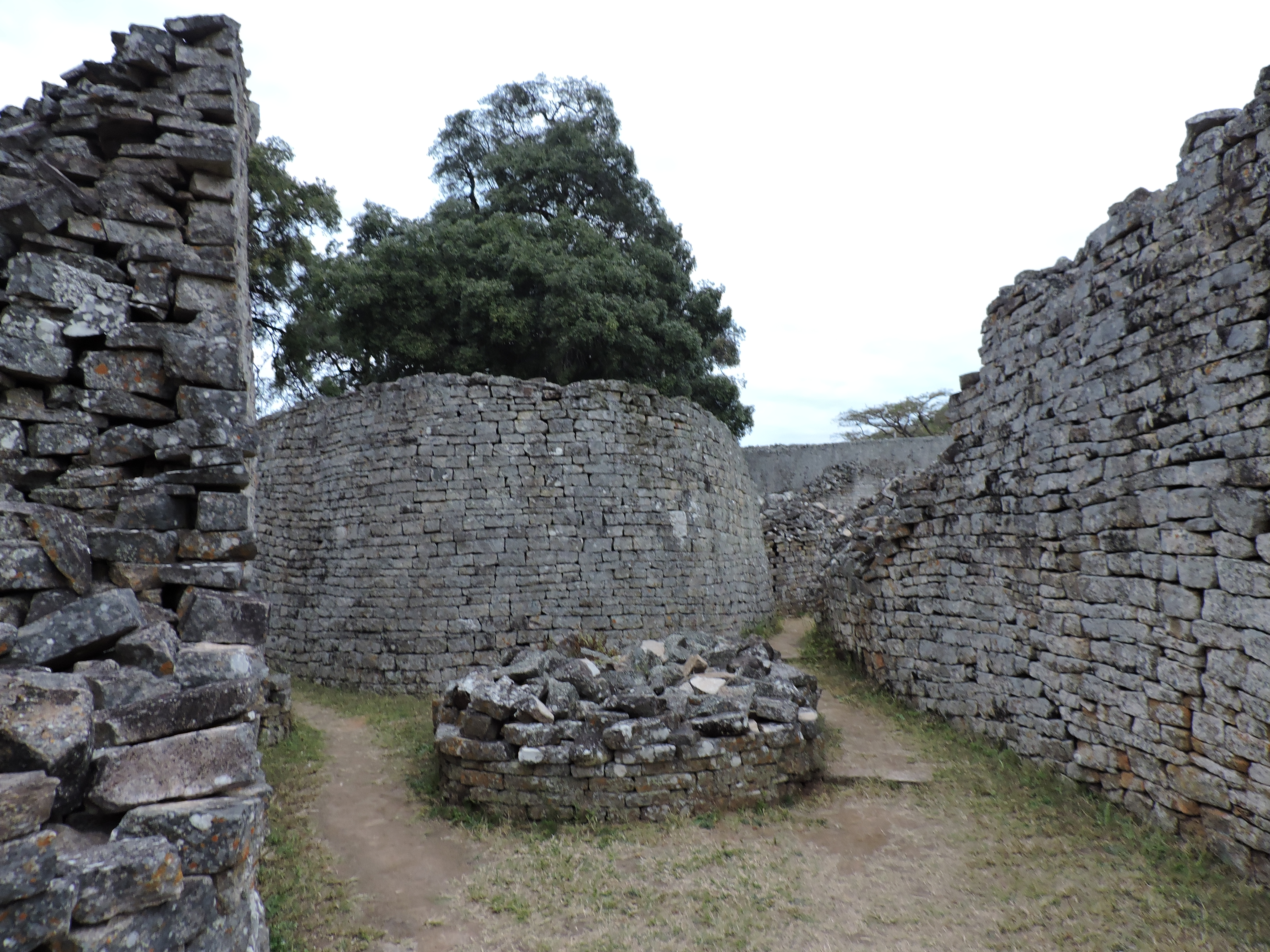 The Great Zimbabwe is a ruined city in the southeastern hills of Zimbabwe. It was built between the 11th & 14th centuries. It is recognized by UNESCO as a World Heritage Site.